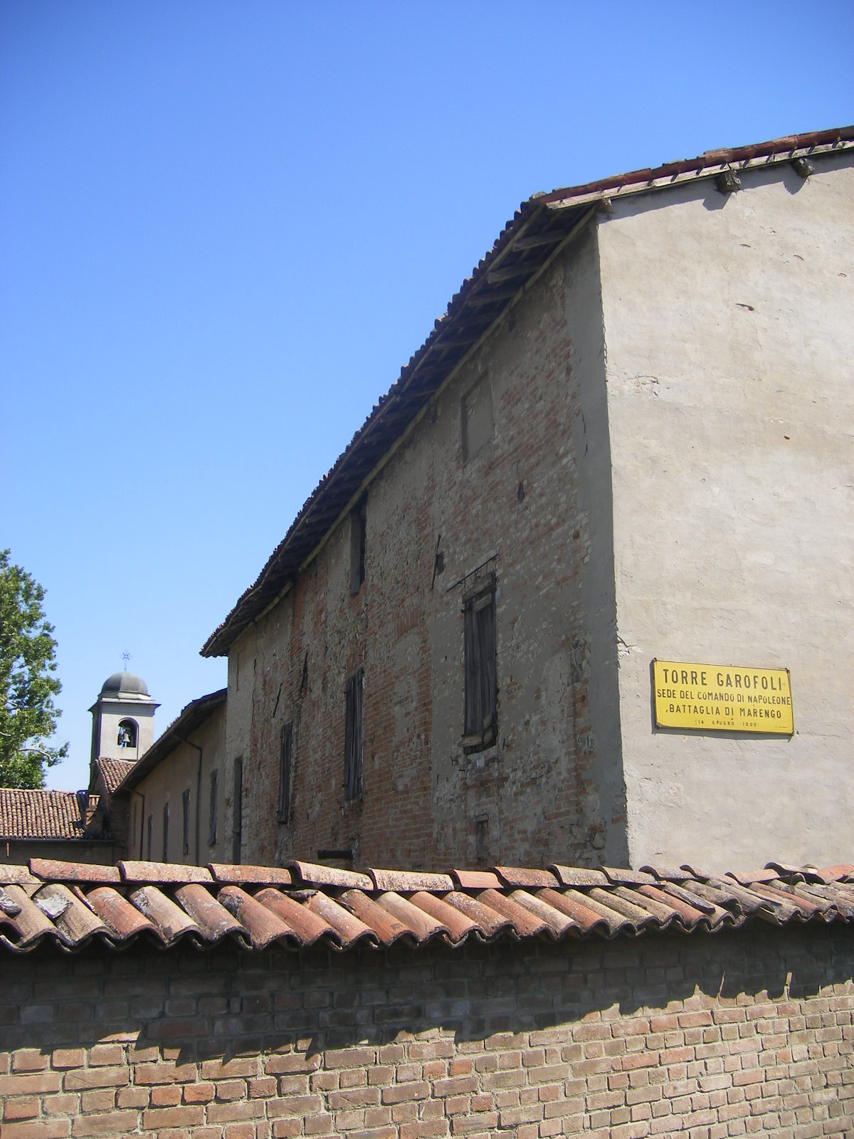 Torre Garofoli (comune Tortona) - sight of the Battle of Marengo